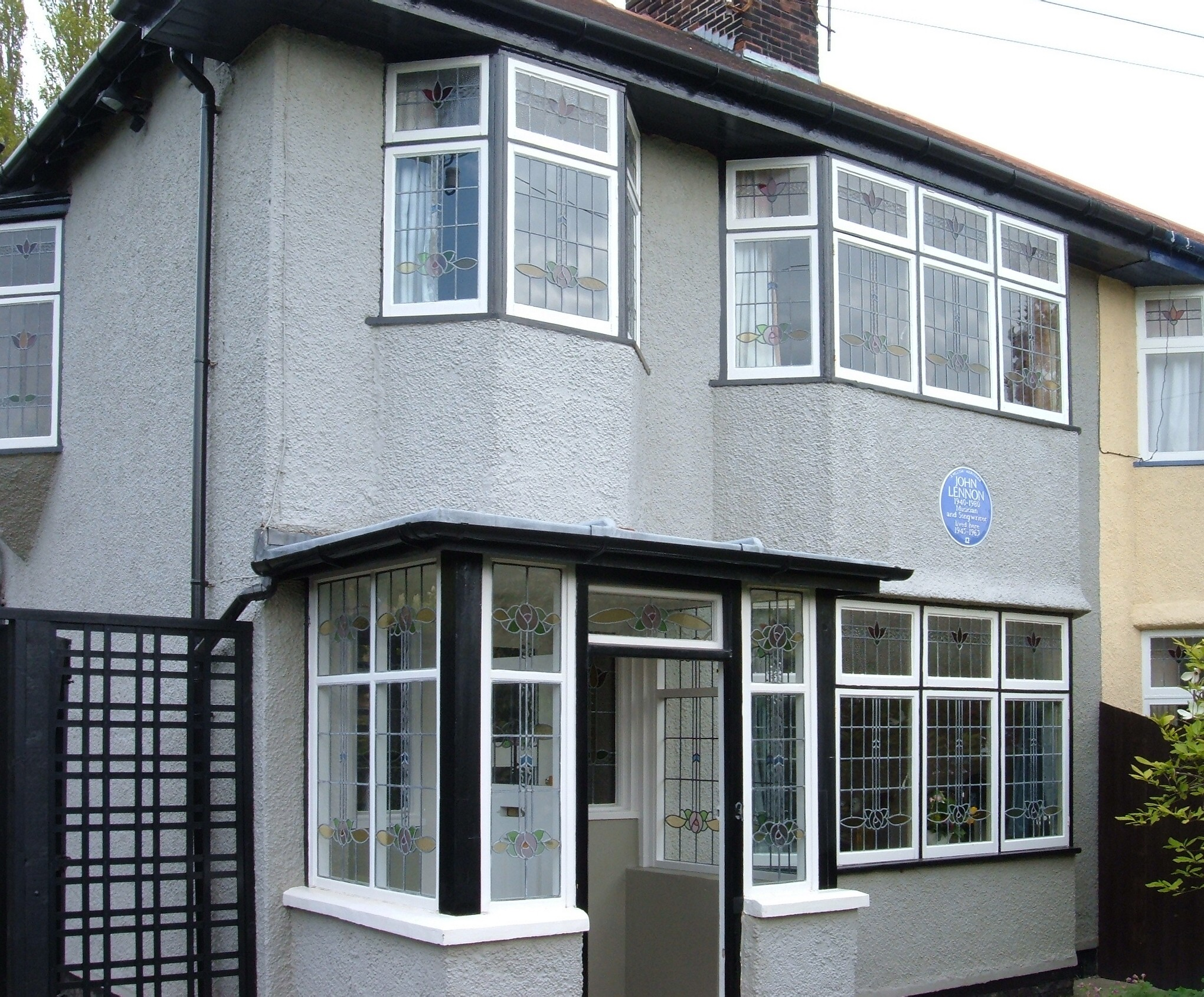 Picture of Mendips, John Lennon's childhood home